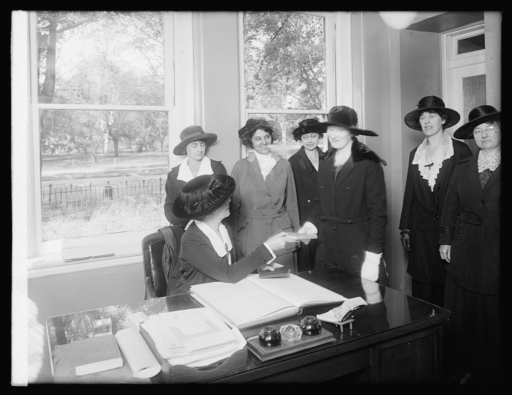 Police Department of the United States Women's Bureau circa 1920.